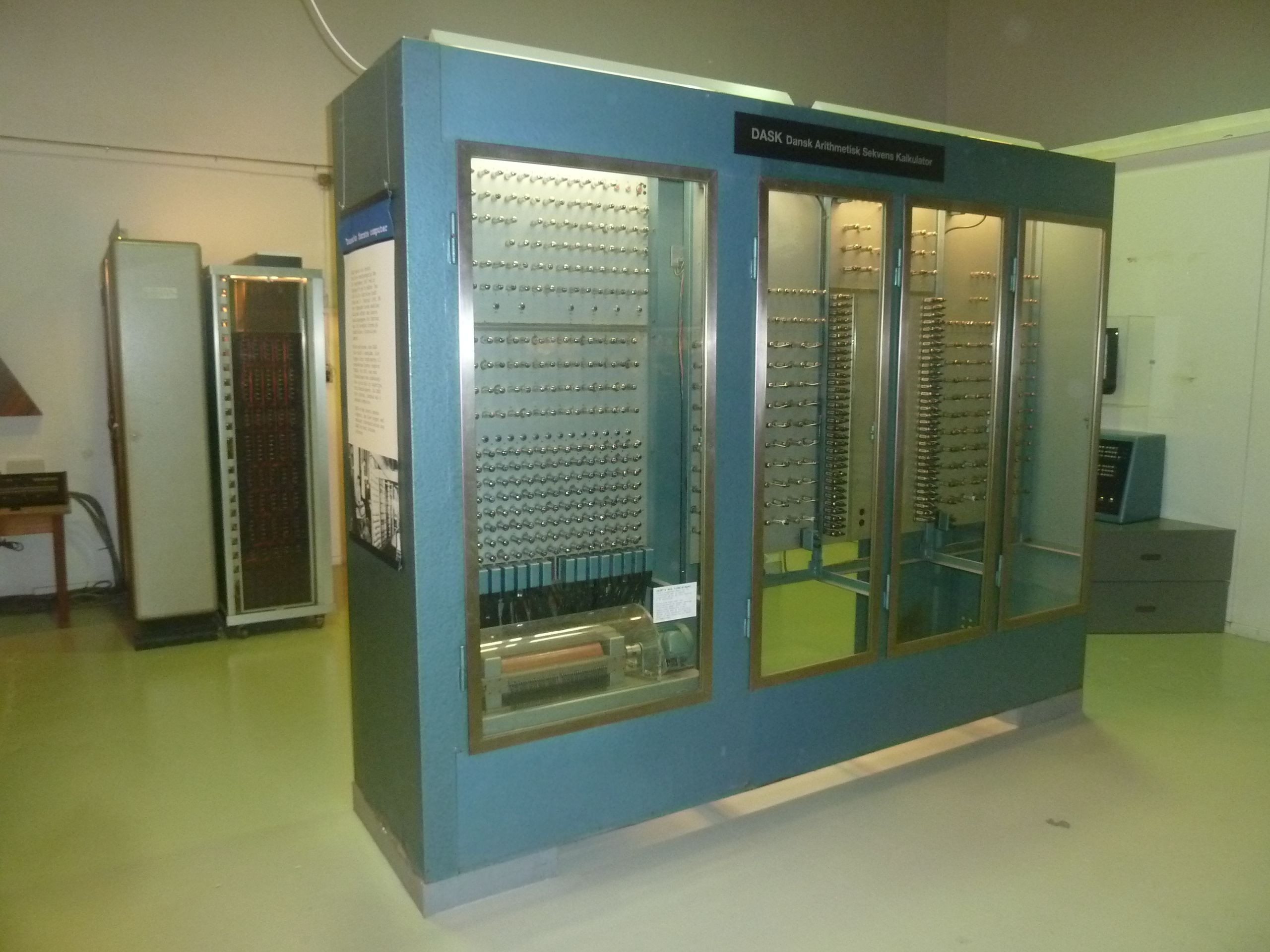 A part of the first Danish computer Dansk Aritmetisk Sekvens Kalkulator (DASK, Danish Arithmetic Sequence Calculator) from 1957 in Danmarks Tekniske Museum in Helsingør.